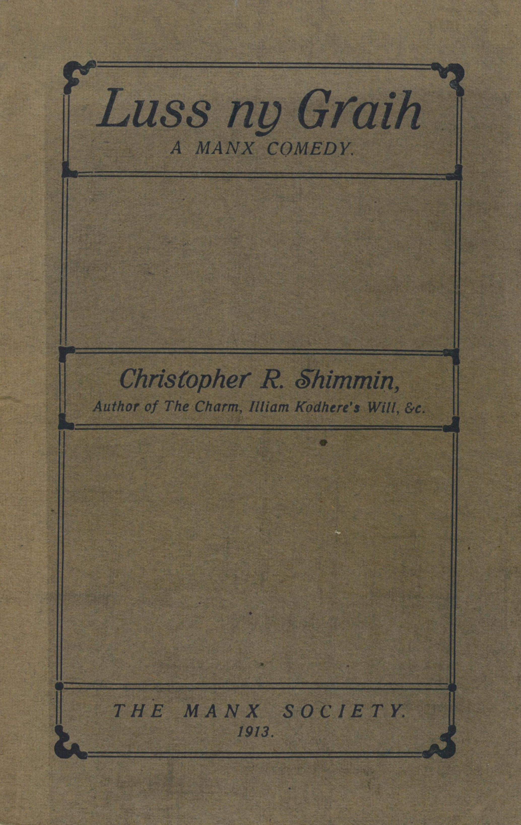 The cover of 'Luss ny Graih' by Christopher Shimmin